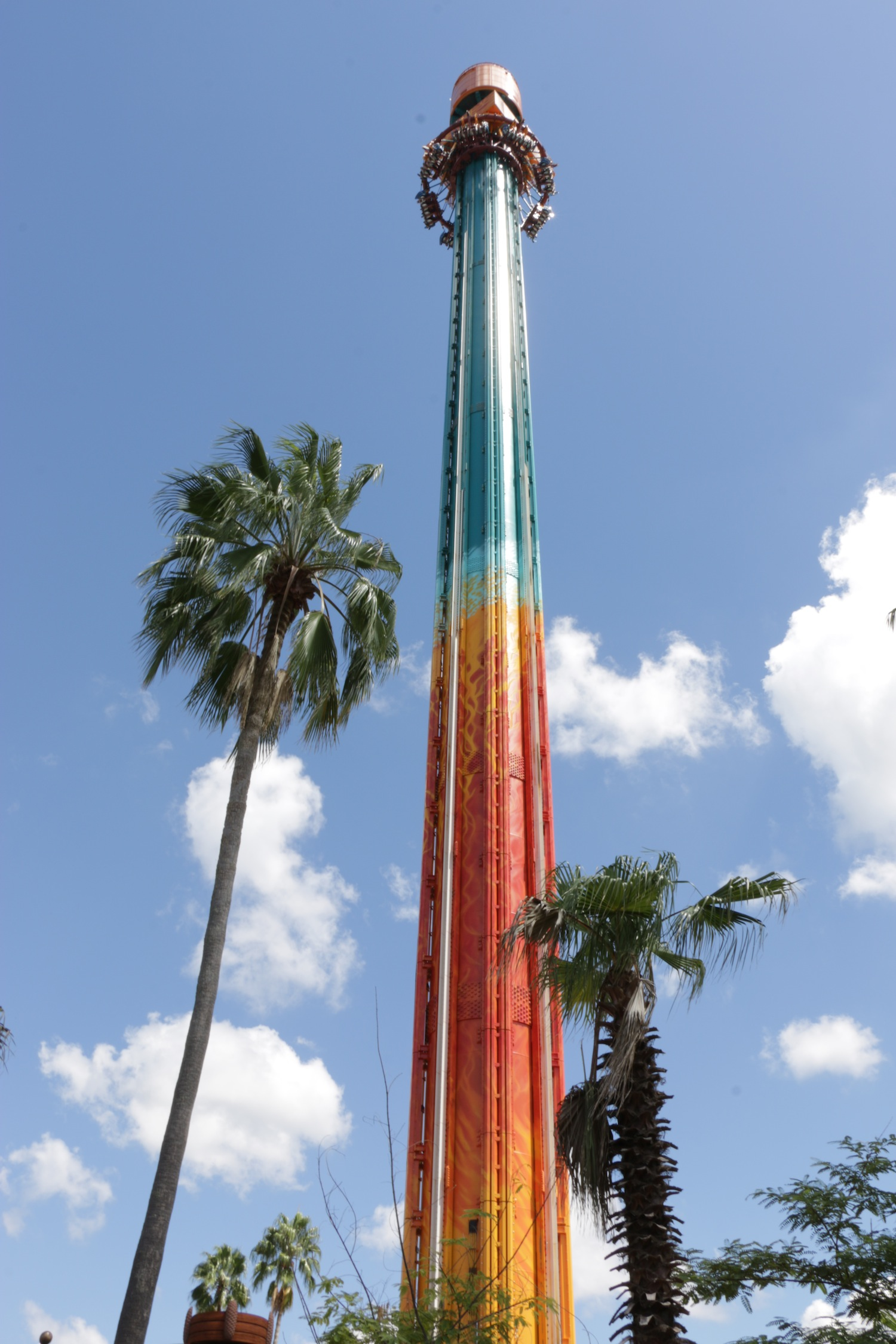 This is a photo of the Falcon's Fury attraction currently operating at the Busch Gardens Tampa amusement park.